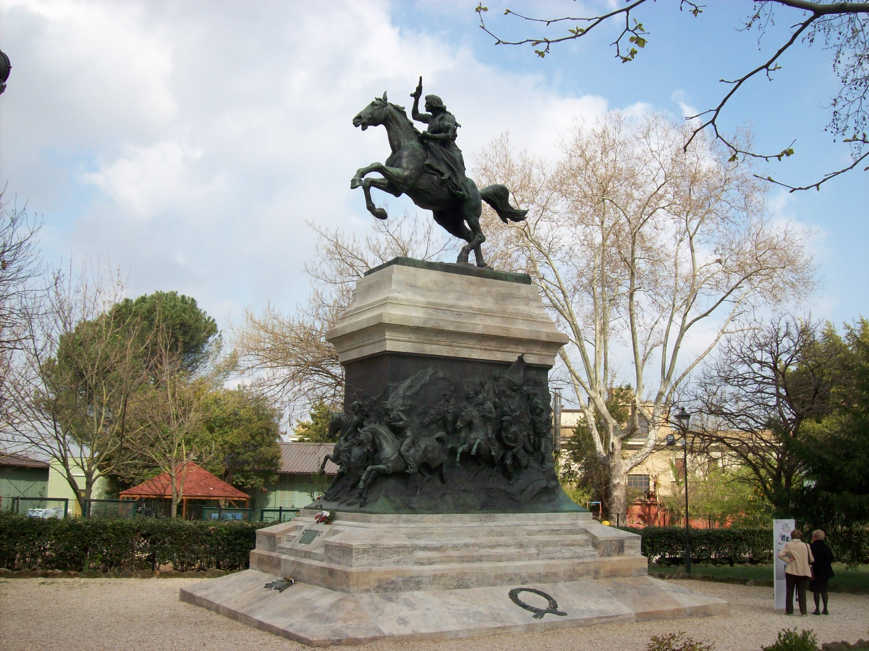 Mario Rutelli's bronze statue of Anita Garibaldi (built 1932) on the Gianicolo Hill, Rome. The monument is also Anita Garibaldi's grave as her ashes rest in the statue's pedestal